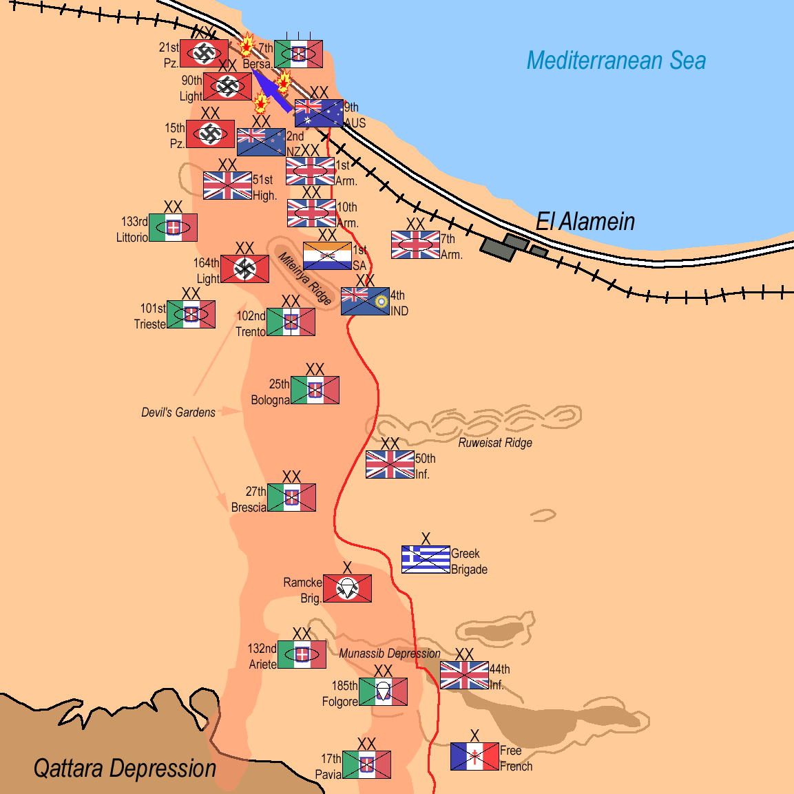 Second Battle of El Alamein: Operation Supercharge begins. Australian 9th Division attacks to open breach in Axis line for 2nd New Zealand Division: 11pm October 31st, 1942. Australian 9th Division fails and returns to starting position. Supercharge pushed back 24h: November 1st, 1942.